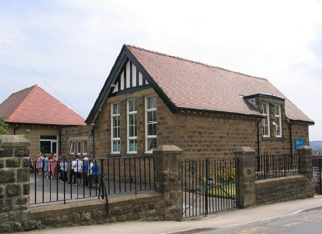 Askwith Community Primary School. Askwith is a small village school on the edge of the Wharfe Valley between Otley and Ilkley.